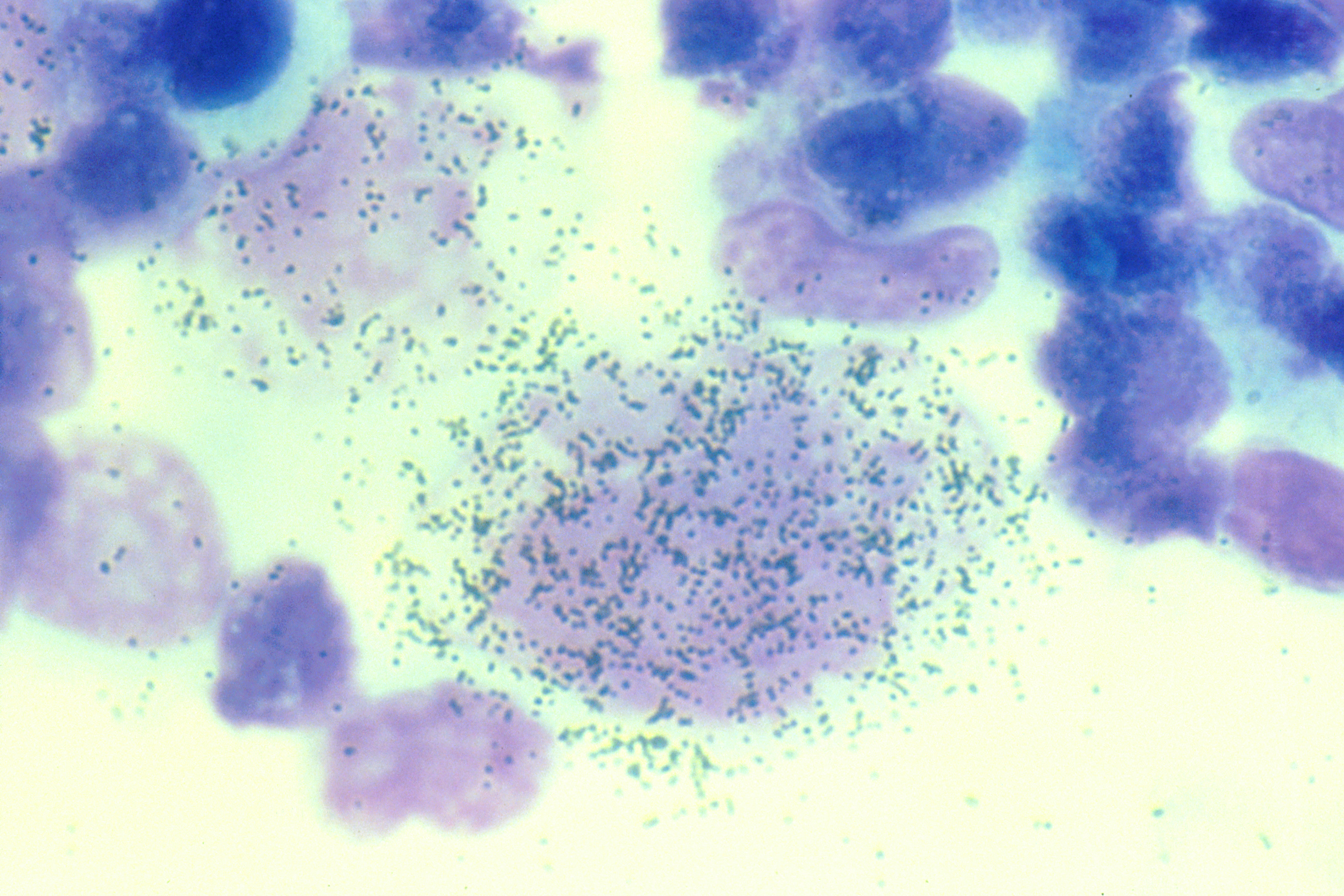 Title HHV-6: Radioactive Isotope Description This is a histological slide stained with H&E of a human herpesvirus (HHV-6), a type of human herpes virus. In this photomicrograph of infected cells, the black specks indicate the location of a radioactive isotope that has been attached to the viral RNA. In this case, a large number of black specks indicate that this lymphocyte has been infected. Topics/Categories Cells or Tissue, Abnormal Cells or Tissue Type Color, Photo Source Zaki Salahuddin. Laboratory of Tumor Cell Biology